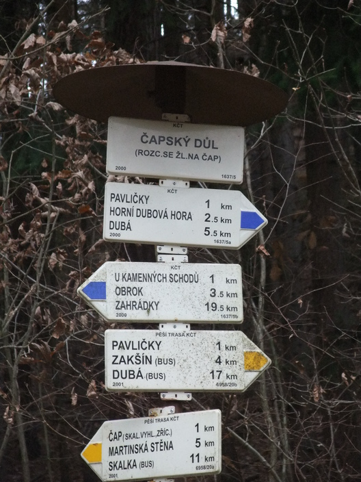 Česká Lípa District, Liberec Region, the Czech Republic. Guidepost